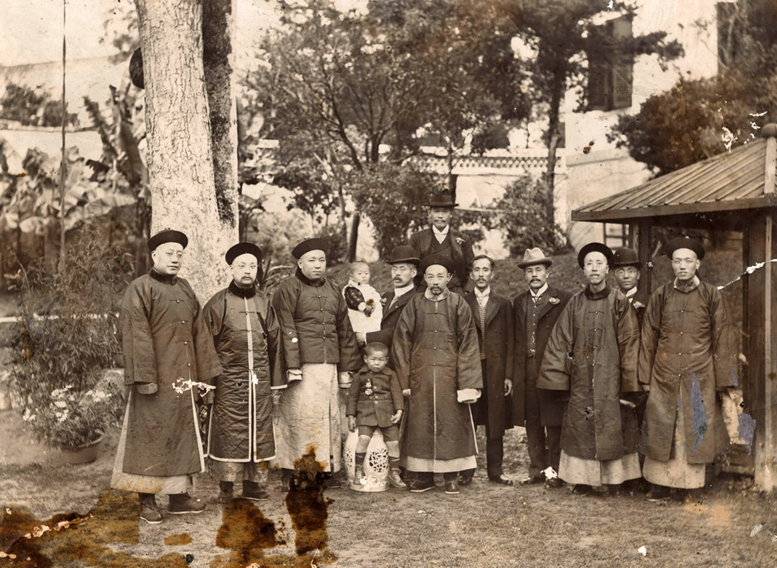 Chinese poet Huang Zunxian (1848–1905) photographed in circa 1900 with members of his family during a gathering.